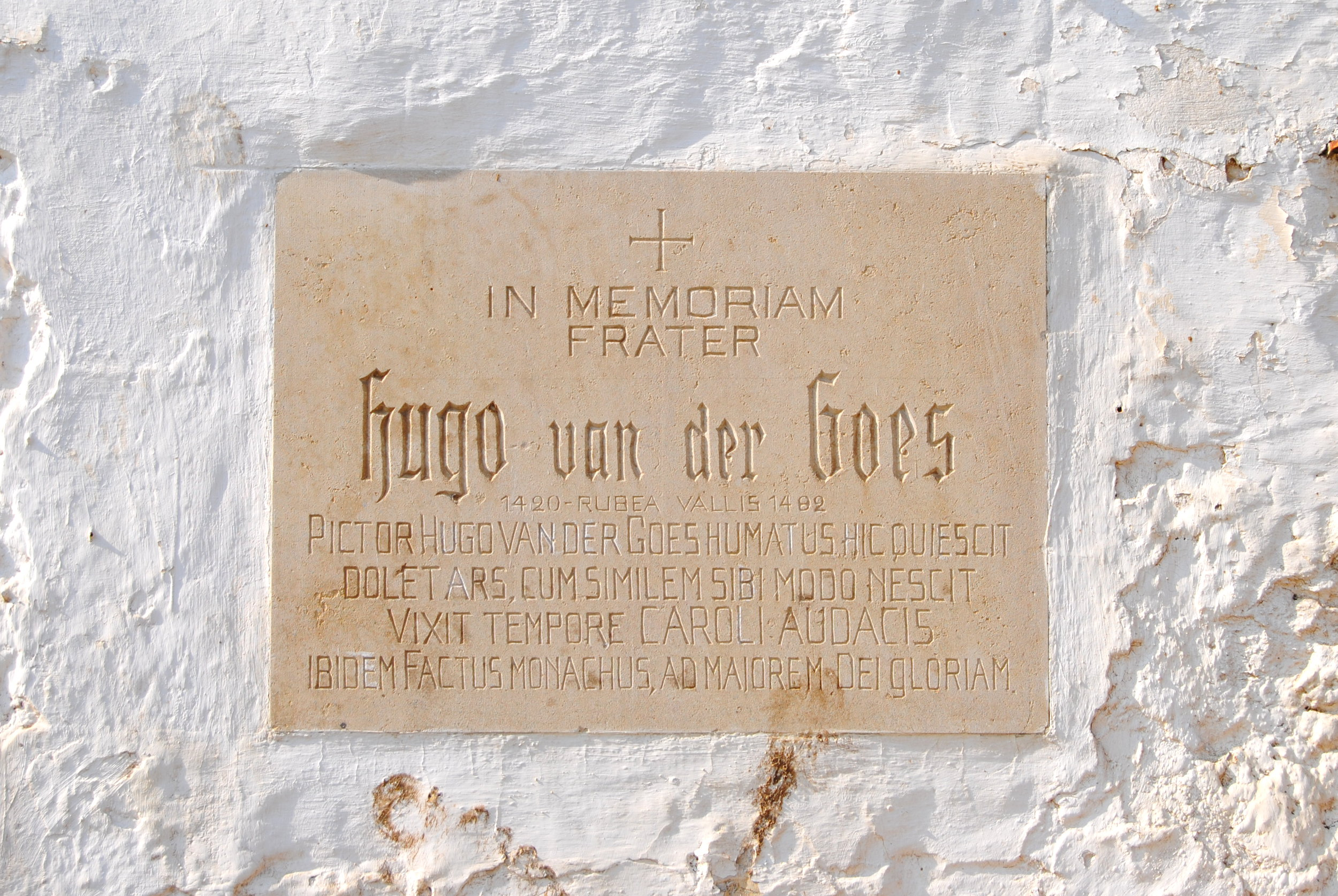 Commemorative tablet Hugo van der Goes, Red Cloister priory, Auderghem